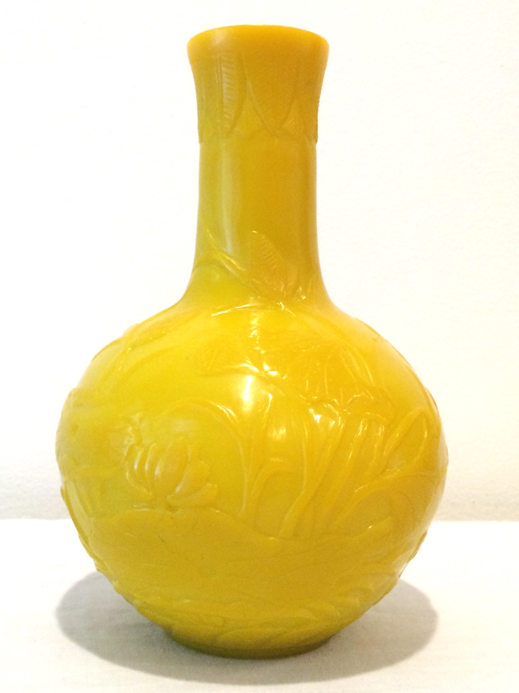 A Daoguang (1820s) period Peking glass vase in Imperial Yellow with lotus print.